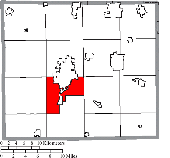 Map of the municipal and township boundaries of Wayne County, Ohio, United States, as of the 2000 census, with the location of Wooster Township highlighted. Township borders are shown only in unincorporated areas in order to differentiate incorporated and unincorporated areas more clearly.